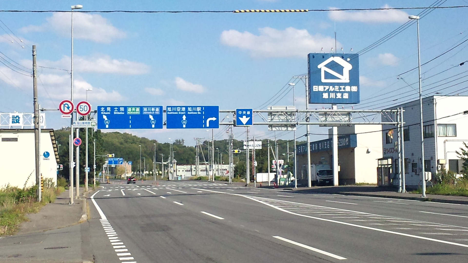 Japan national highway Route 12, Asahikawa Bypass junction